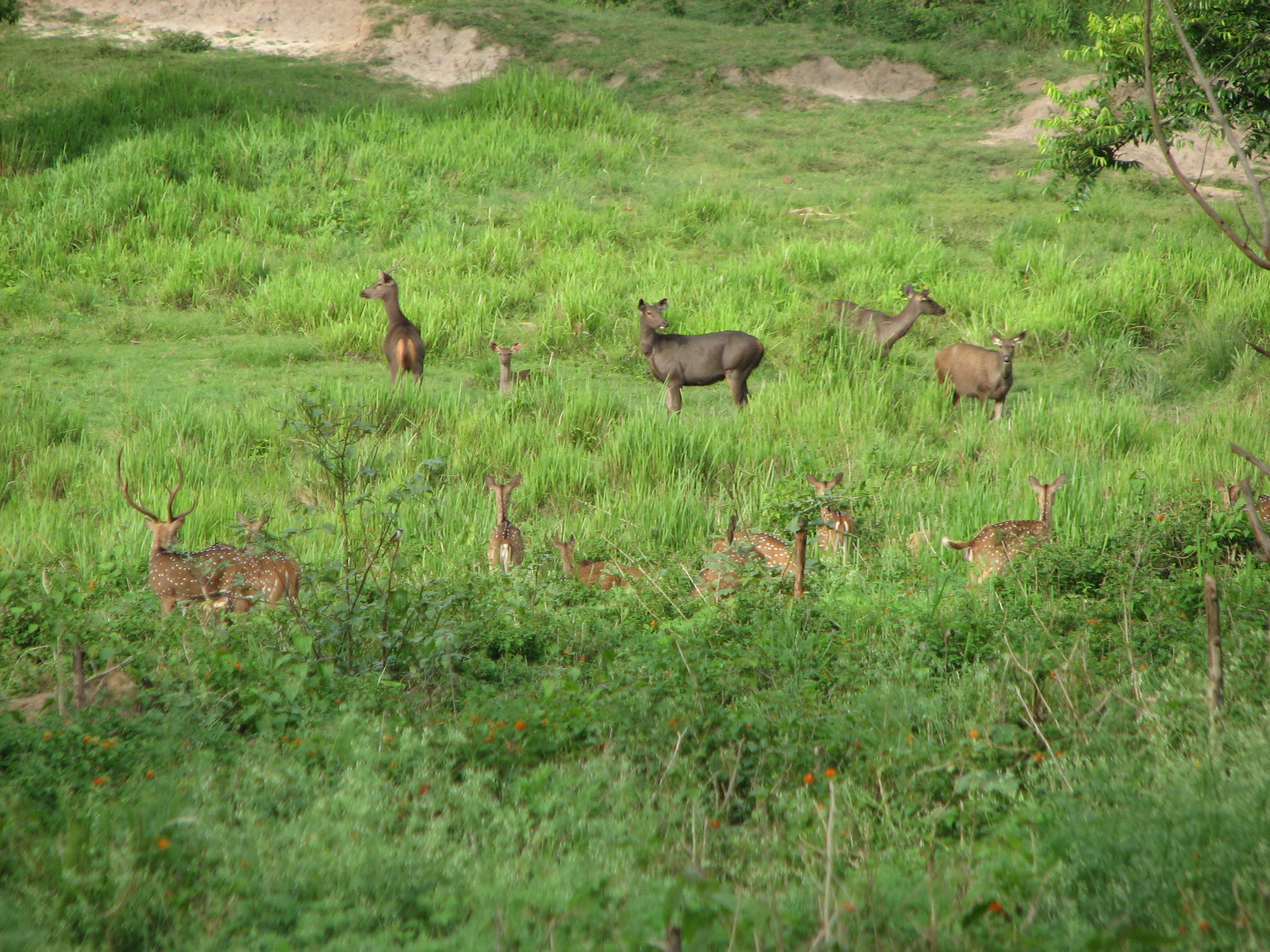 Muthanga Forest, Wayanad. This media file is uploaded with Malayalam loves Wikimedia event. }